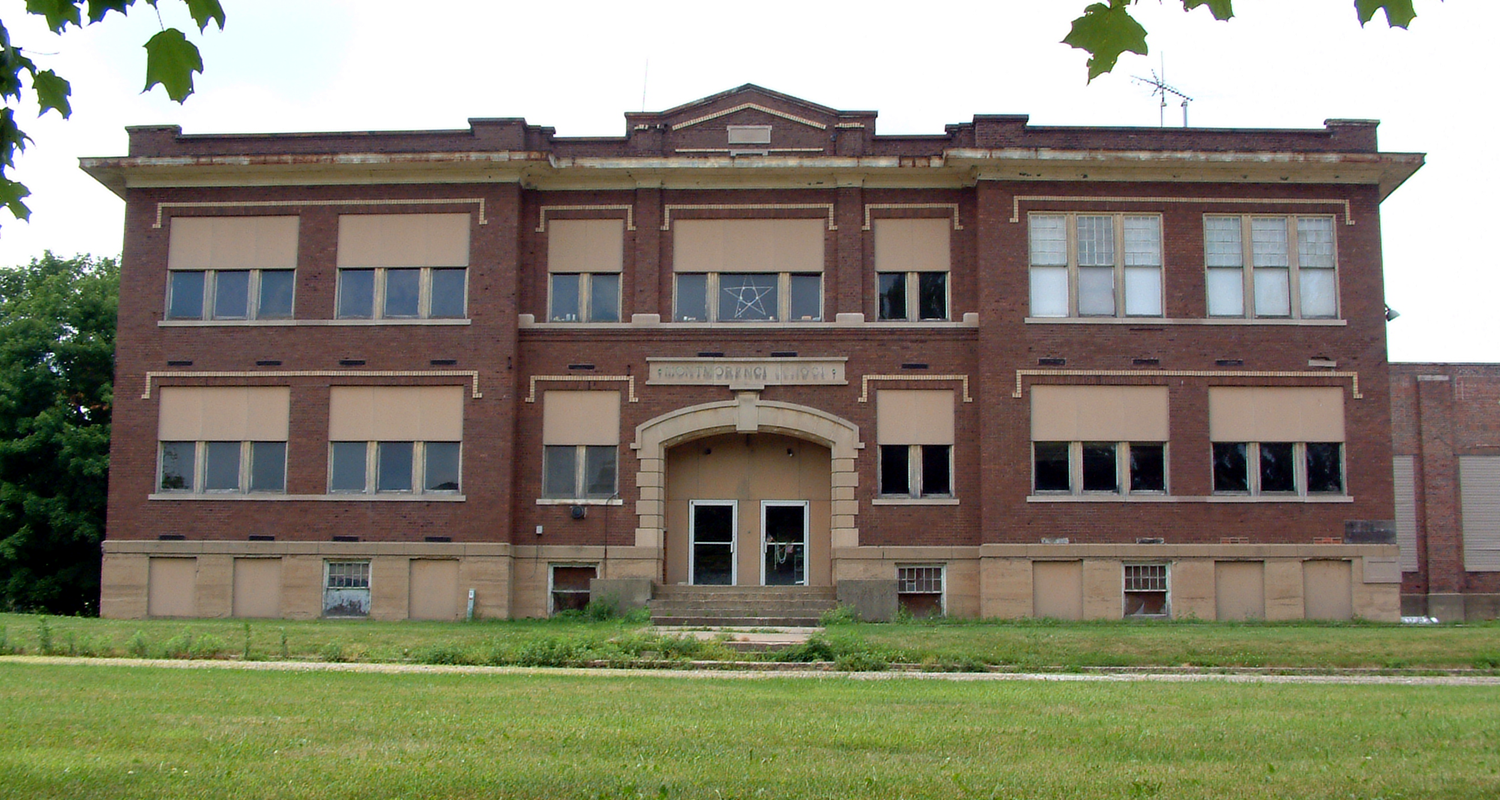 The defunct Montmorenci School, located along County Road 650 West on the south side of the town of Montmorenci in Tippecanoe County, Indiana. Photo looks west.